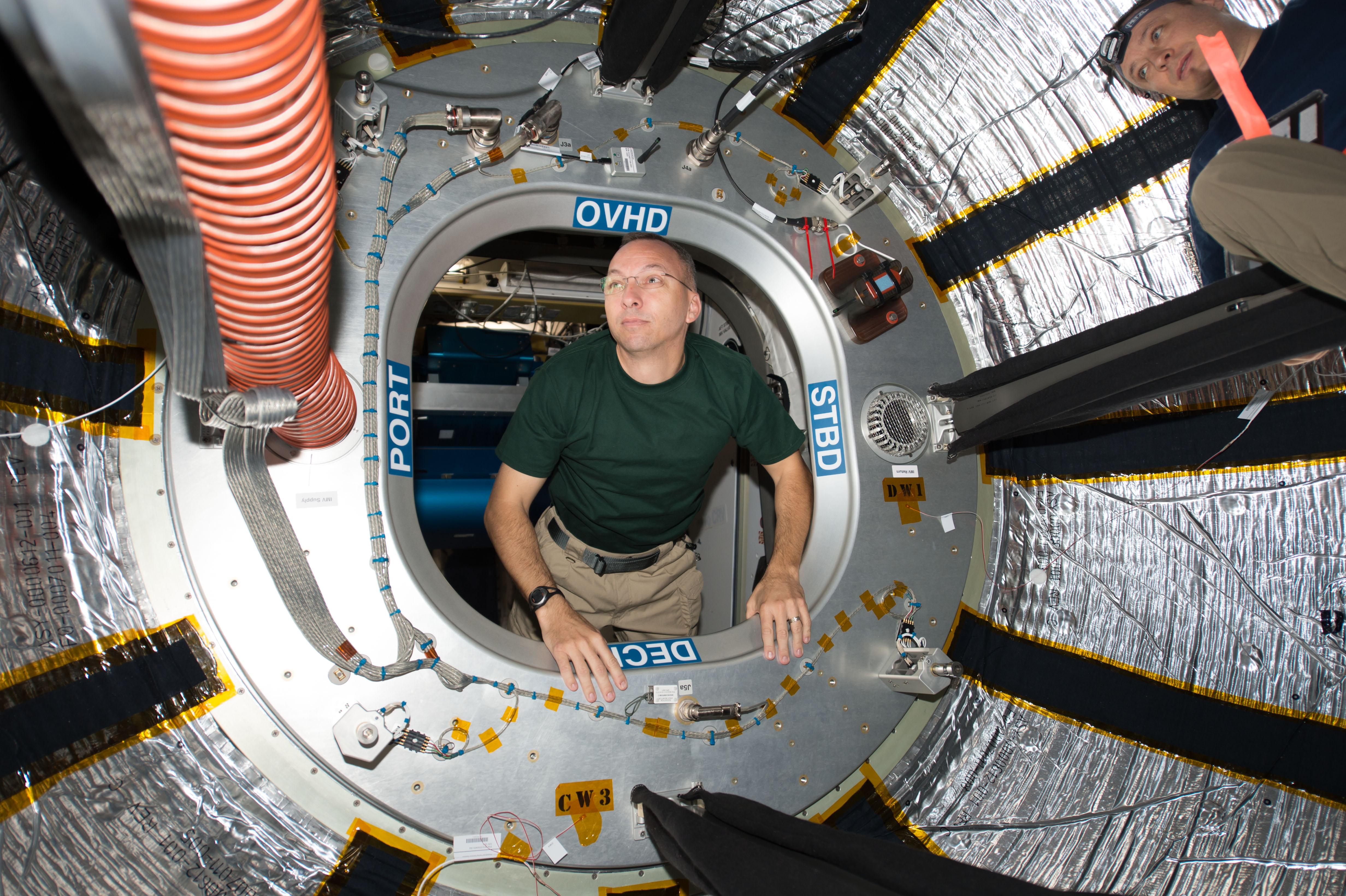 NASA astronaut Randy Bresnik looks through the hatch of the International Space Station's Bigelow Expandable Aerospace Module (BEAM) on July 31, 2017. He shared this photo on social media on August 2, commenting, "Ever wonder how you look when you enter a new part of a spacecraft? Well, this is it. First time inside the expandable BEAM module." The BEAM is an experimental expandable module launched to the station aboard SpaceX's eighth commercial resupply mission on April 8, 2016, and fully expanded and pressurized on May 28. Expandable modules weigh less and take up less room on a rocket than a traditional module, while allowing additional space for living and working. They provide protection from solar and cosmic radiation, space debris, and other contaminants. Crews traveling to the moon, Mars, asteroids, or other destinations may be able to use them as habitable structures. The BEAM is just over halfway into its planned two-year demonstration on the space station. NASA and Bigelow are currently focusing on measuring radiation dosage inside the BEAM. Using two active Radiation Environment Monitors (REM) inside the module, researchers at NASA’s Johnson Space Center in Houston are able to take real-time measurements of radiation levels.